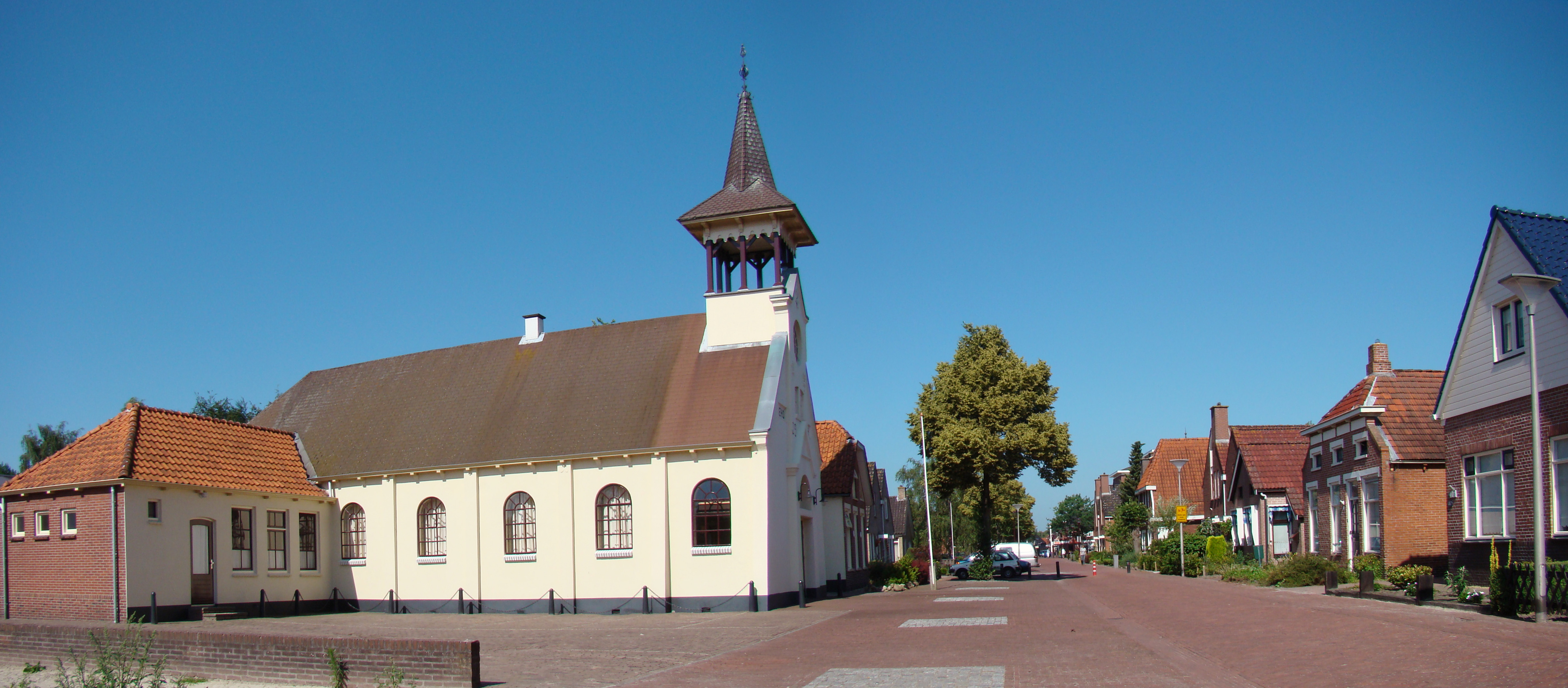 Impressions of Muntendam (Netherlands), with a prominent view on the Baptist church Rehoboth